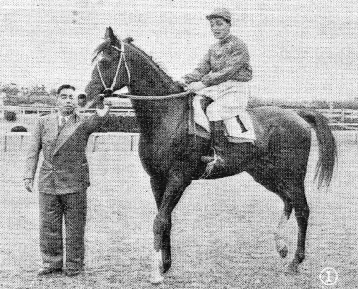 Housei(horse)